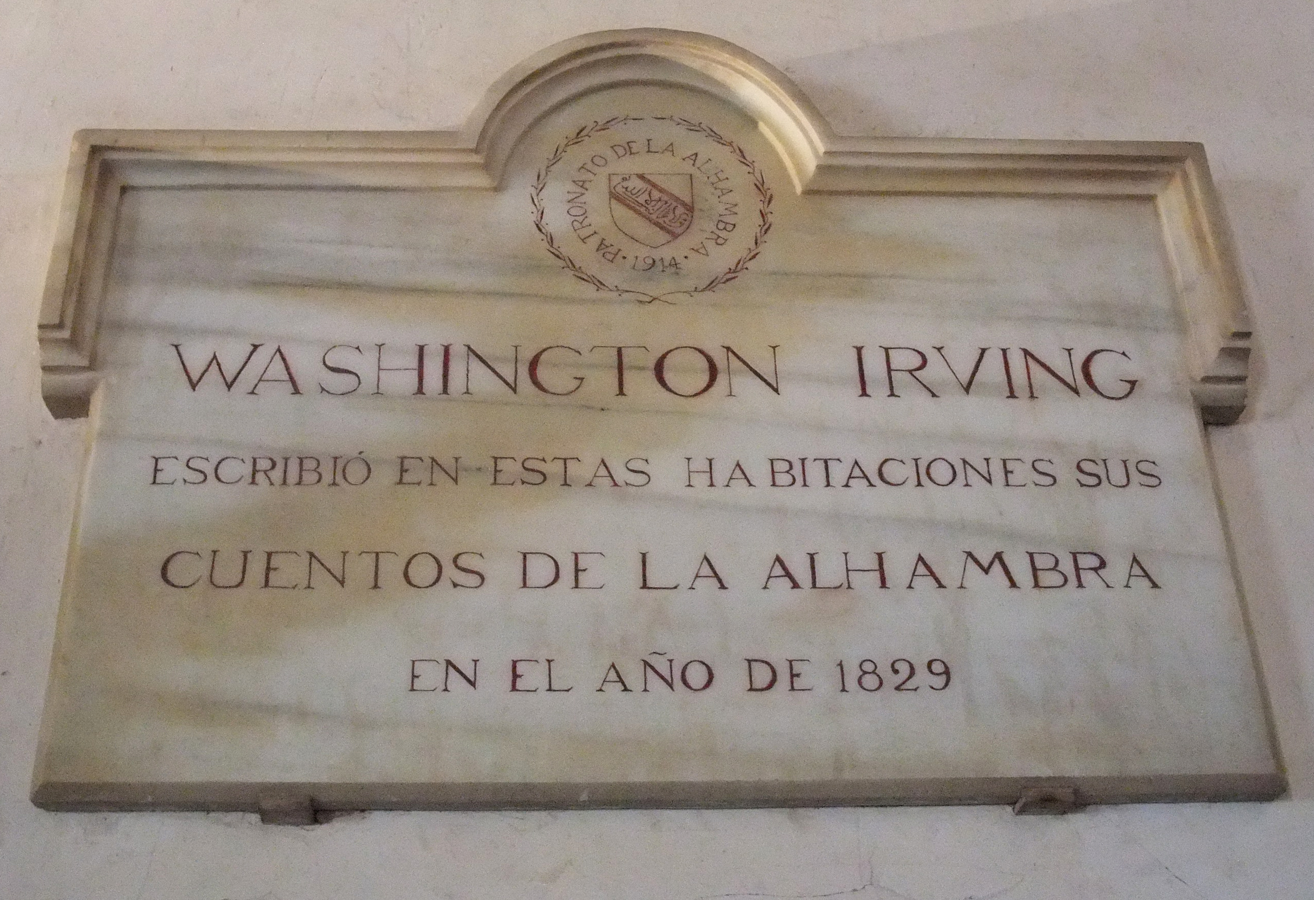 Commemorative plaque for Washington Irving from the Alhambra in Granada, Spain